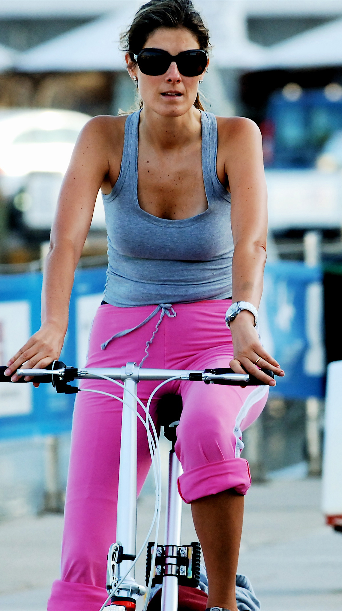 Woman on a bicycle set